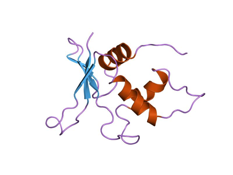 Cartoon representation of the molecular structure of protein registered with 1irf code.